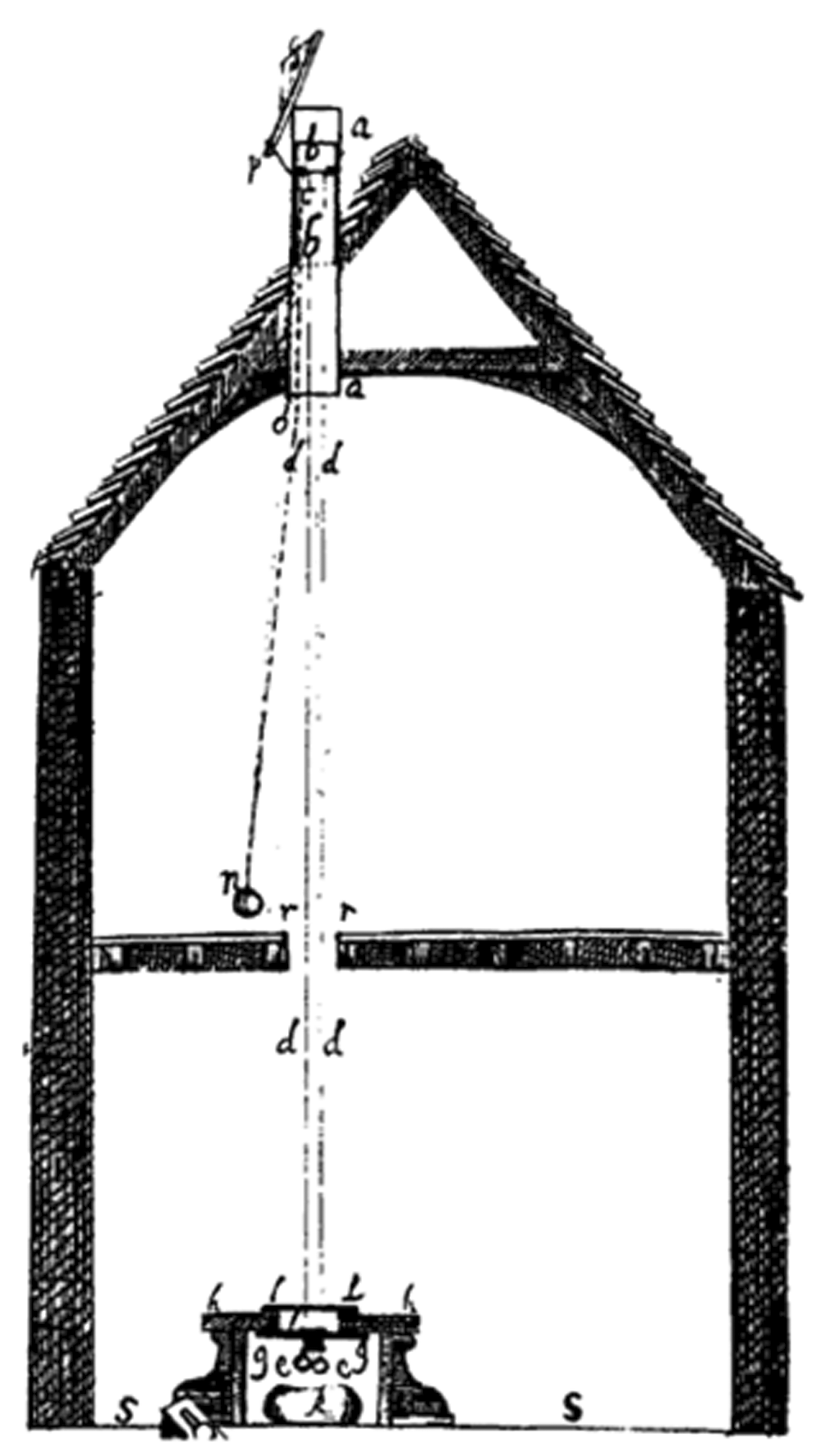 Robert Hooke's Zenith Telescope